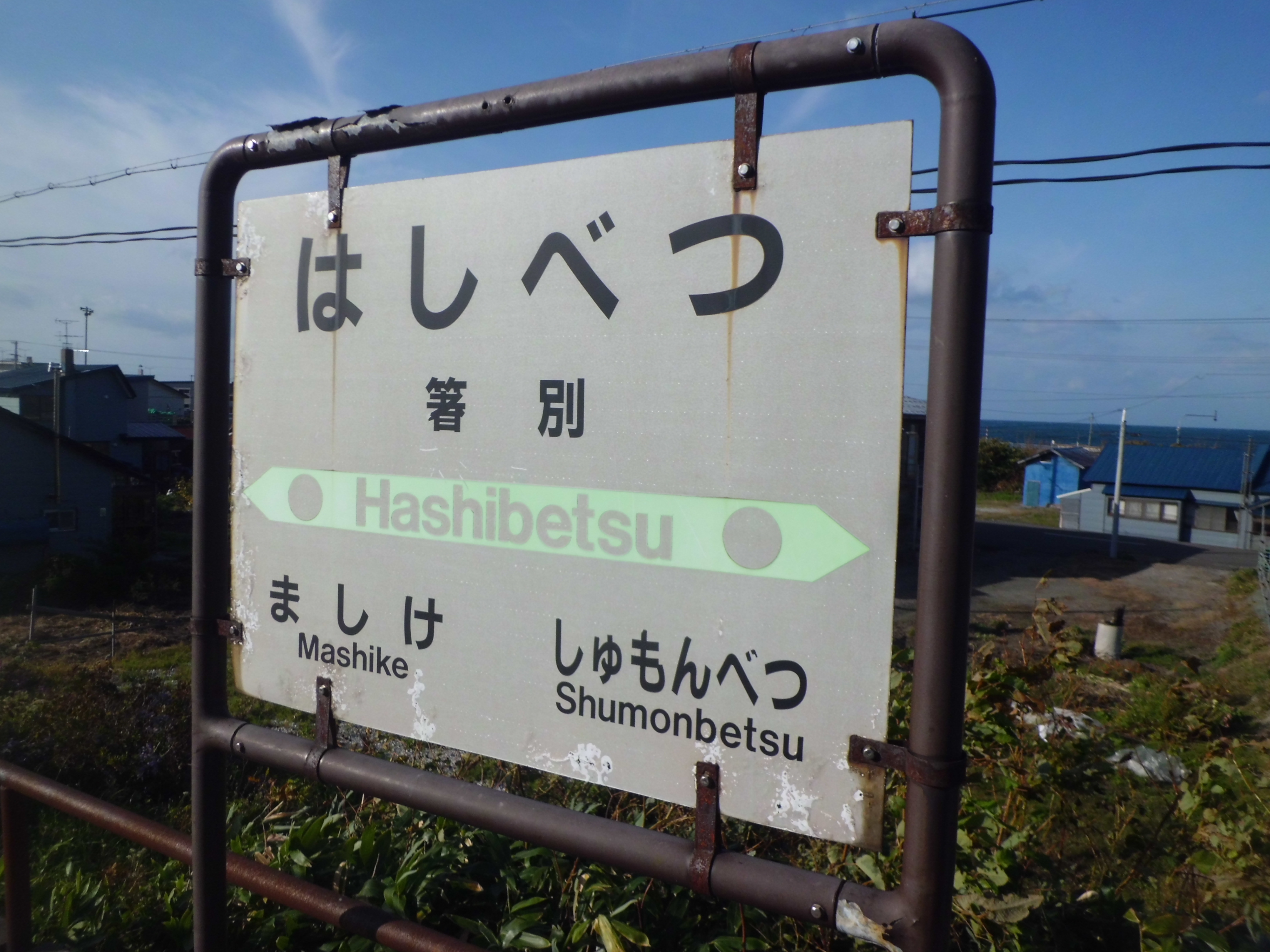 Station sign of Hashibetsu Station